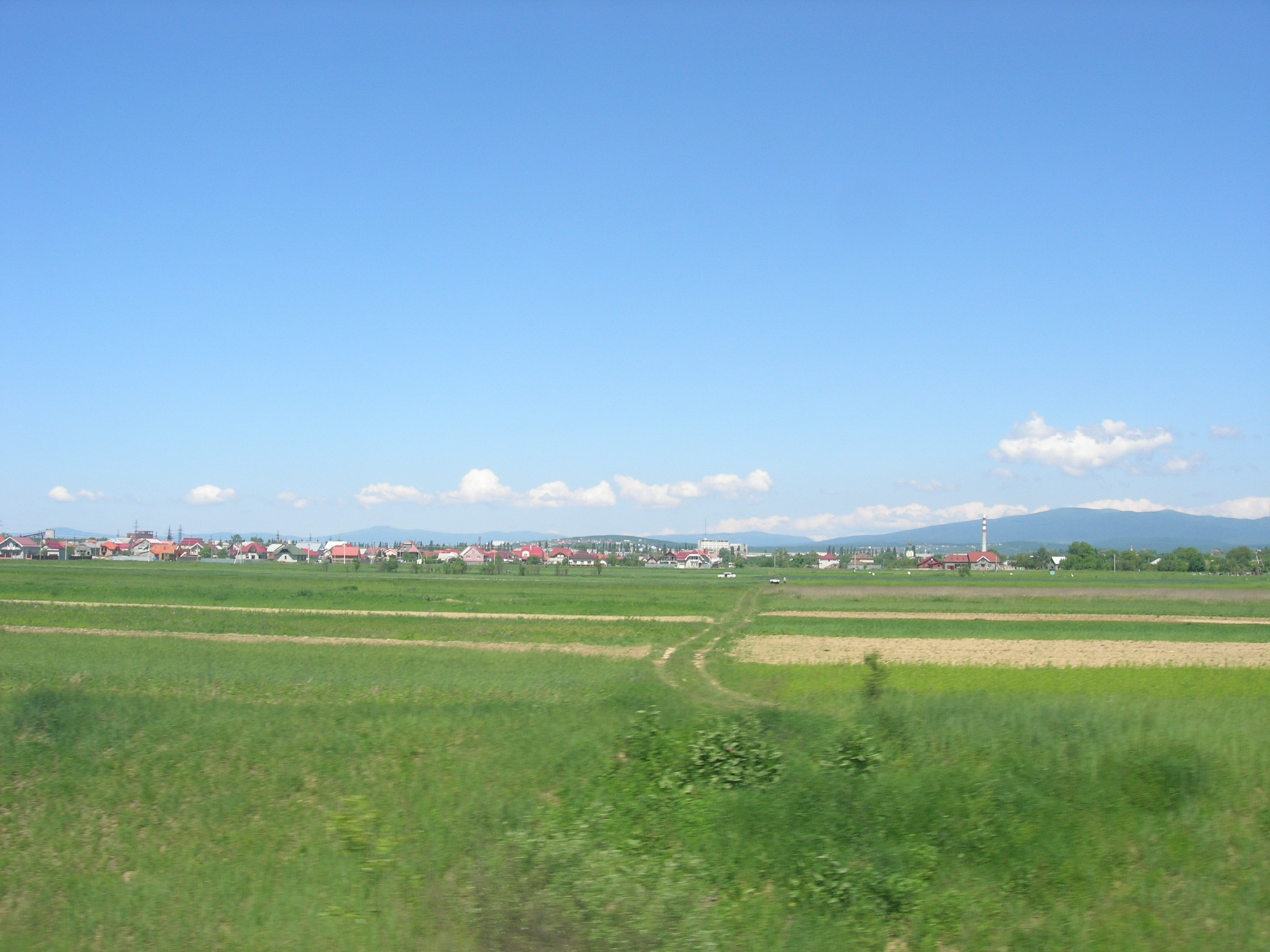 Transcarpathian landscape